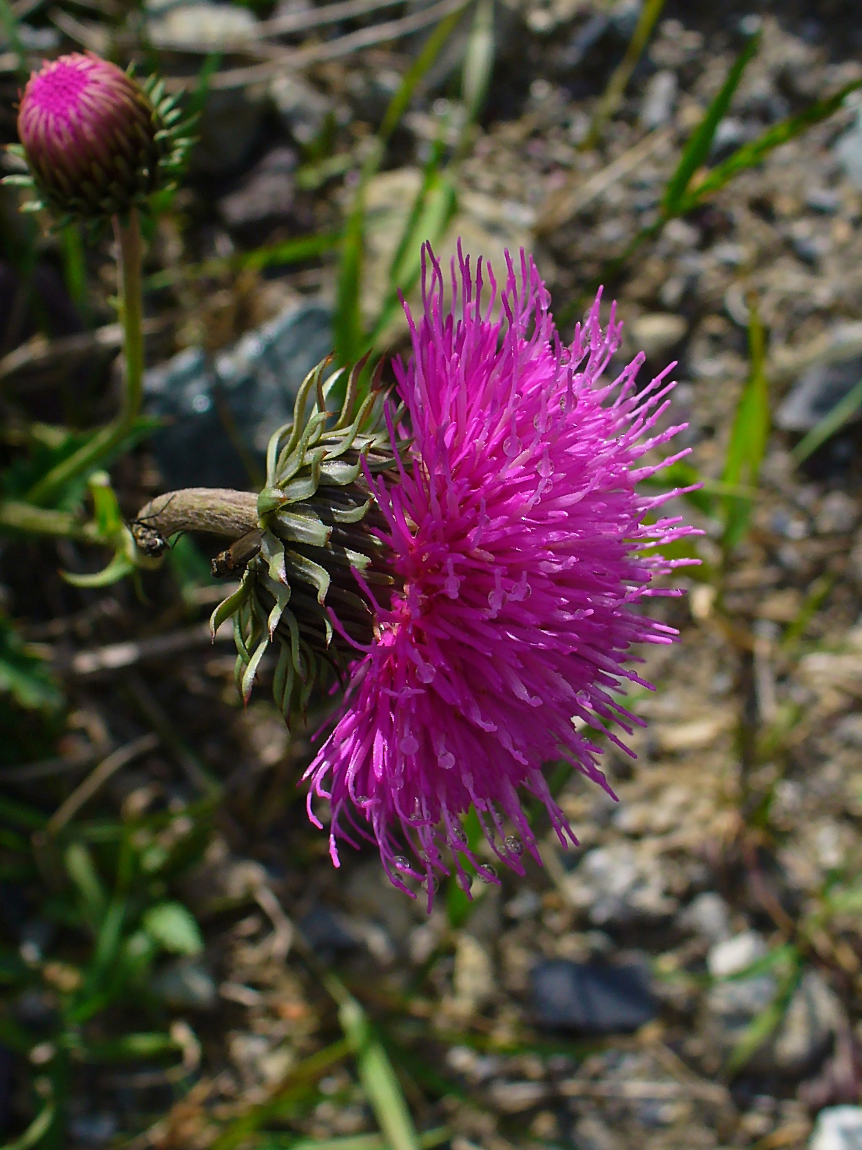 Carduus defloratus, Asteraceae, Alpine Thistle, inflorescence; Corviglia near St. Moritz, Switzerland.